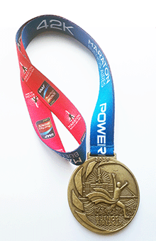 Photo of the 2019 Buenos Aires Marathon Medal. Belongs to me. MUAH